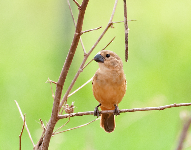 A female Rusty-collared Seedeater in Dourados, Mato Grosso do Sul, Brazil.